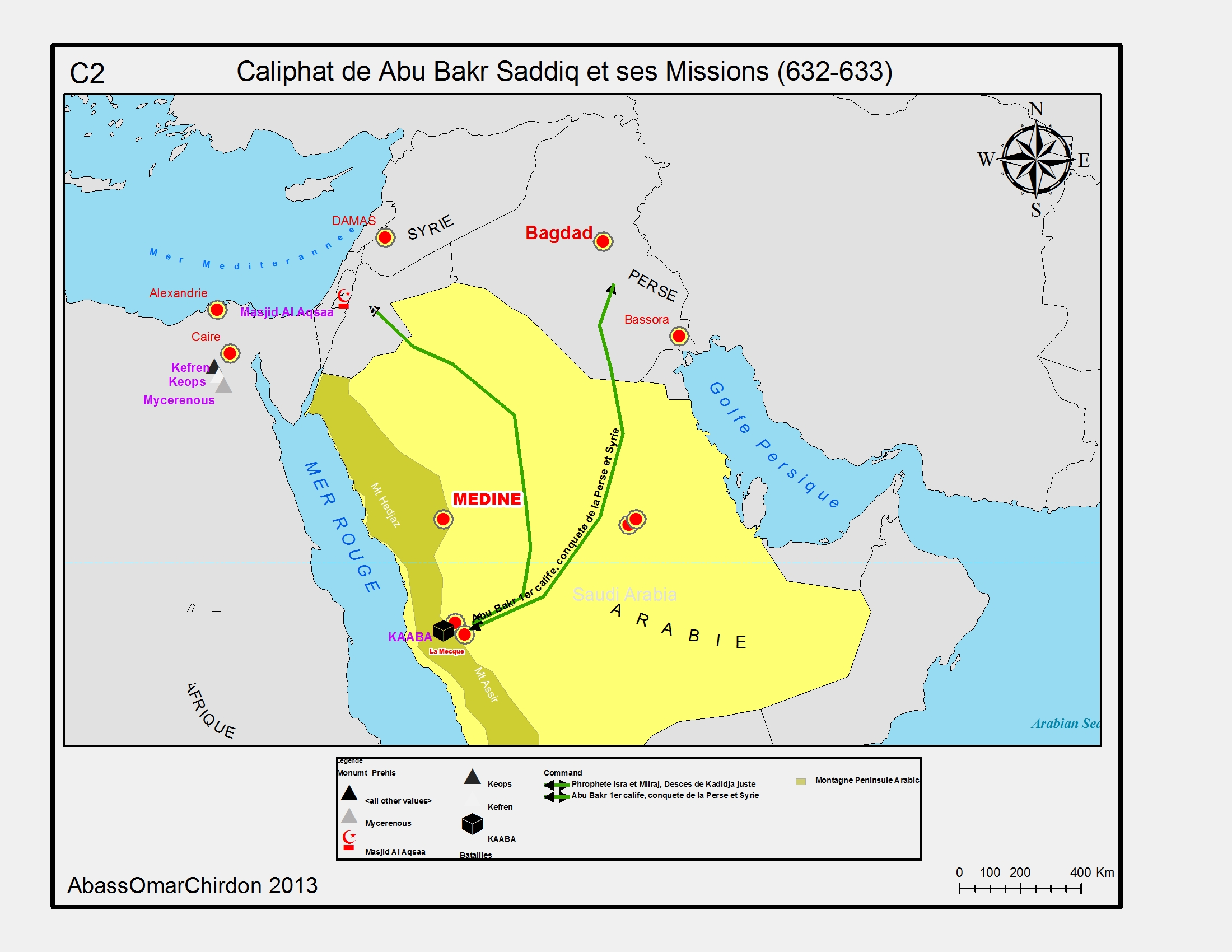 les arabes sous la commande du Calife Abu Bakr.